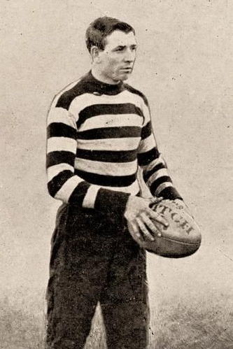 Photograph of Alby Palmer from the 1910 Weekly Times Victorian Footballer Postcard Series